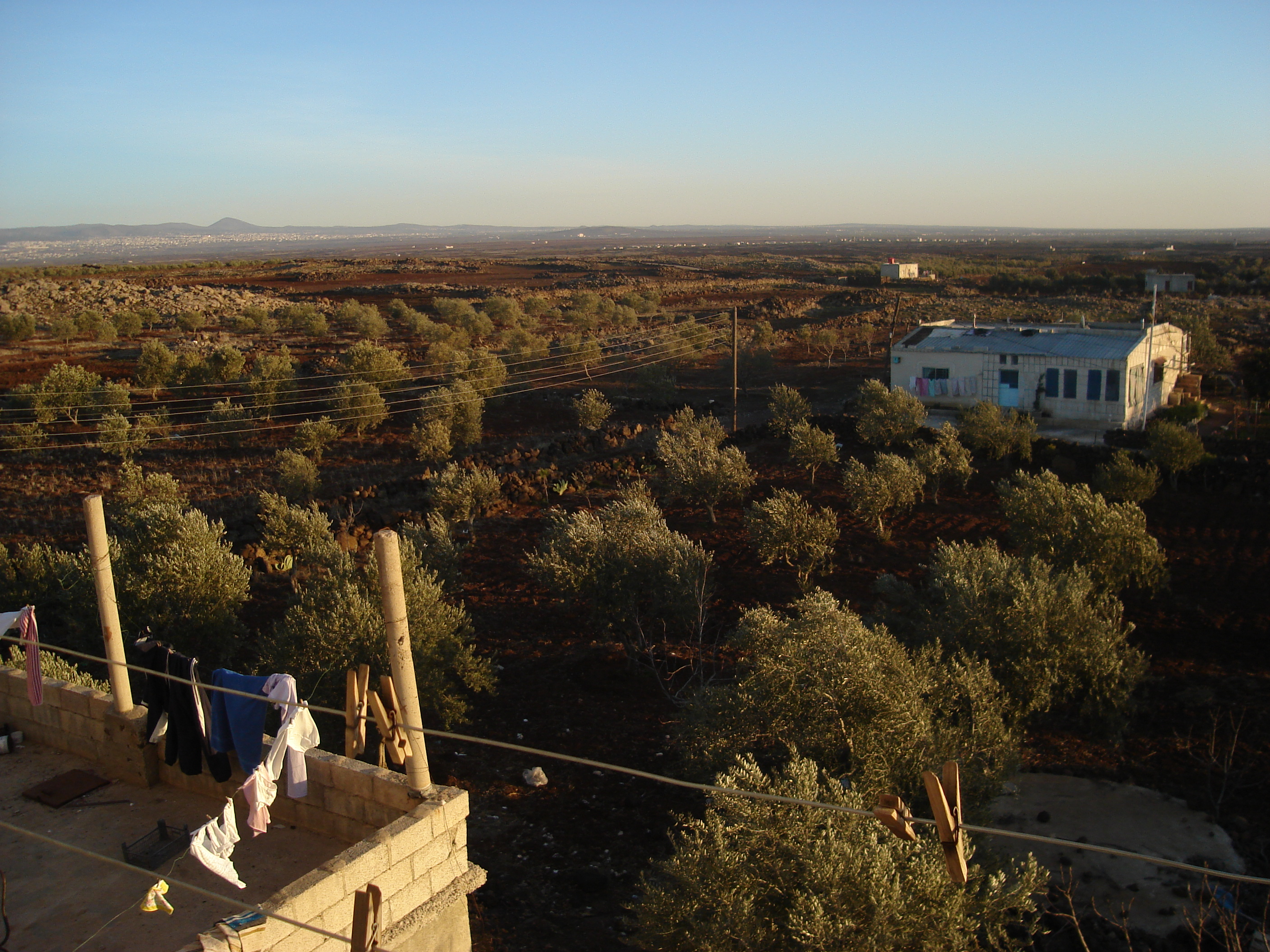 The Syrian village of Sami' in as-Suwayda Governorate.